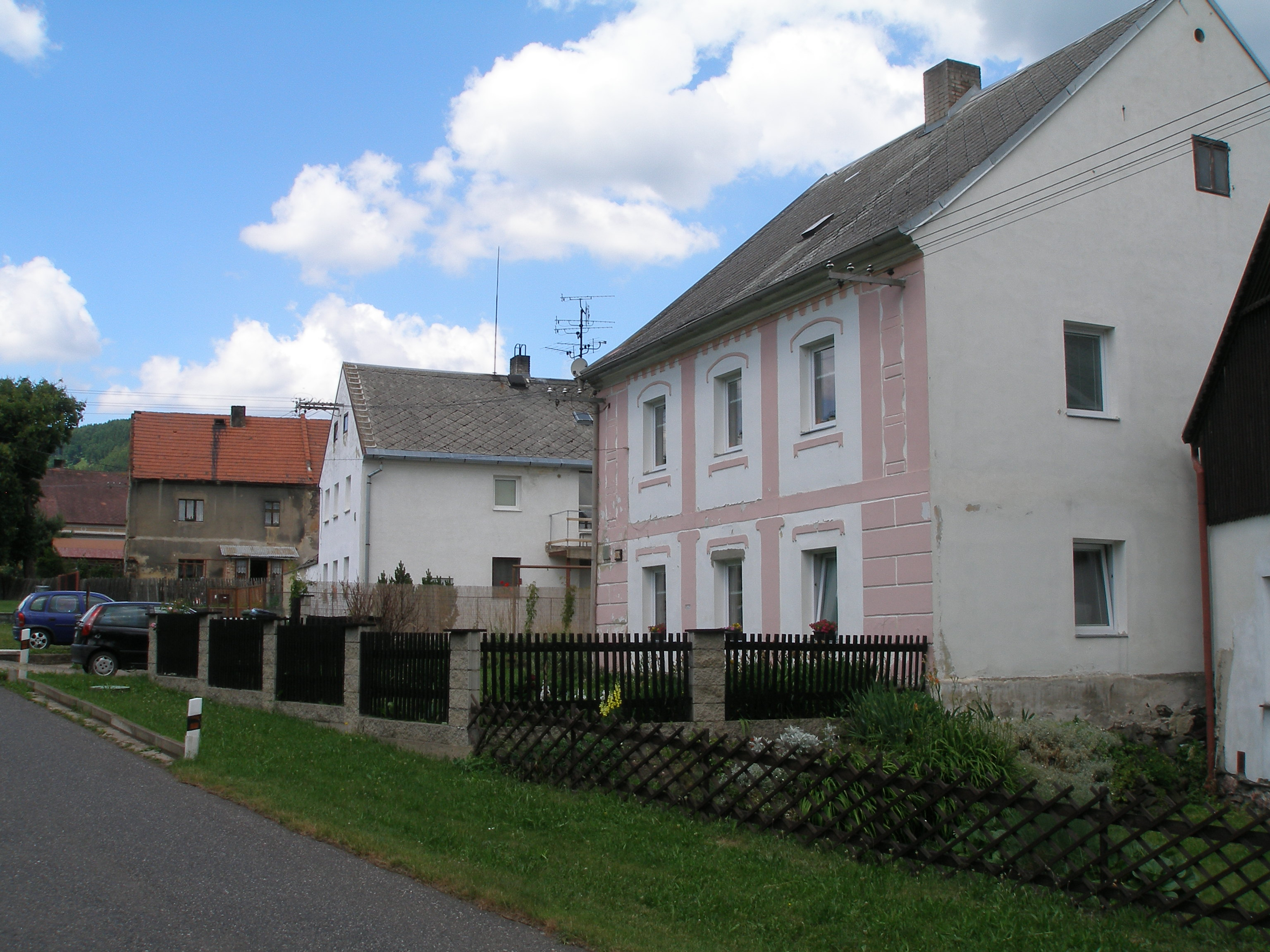 Kojetín (Chomutov District - the northern side of the main street